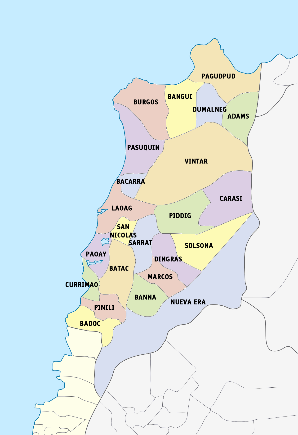 Political map of locos Norte, Philippines